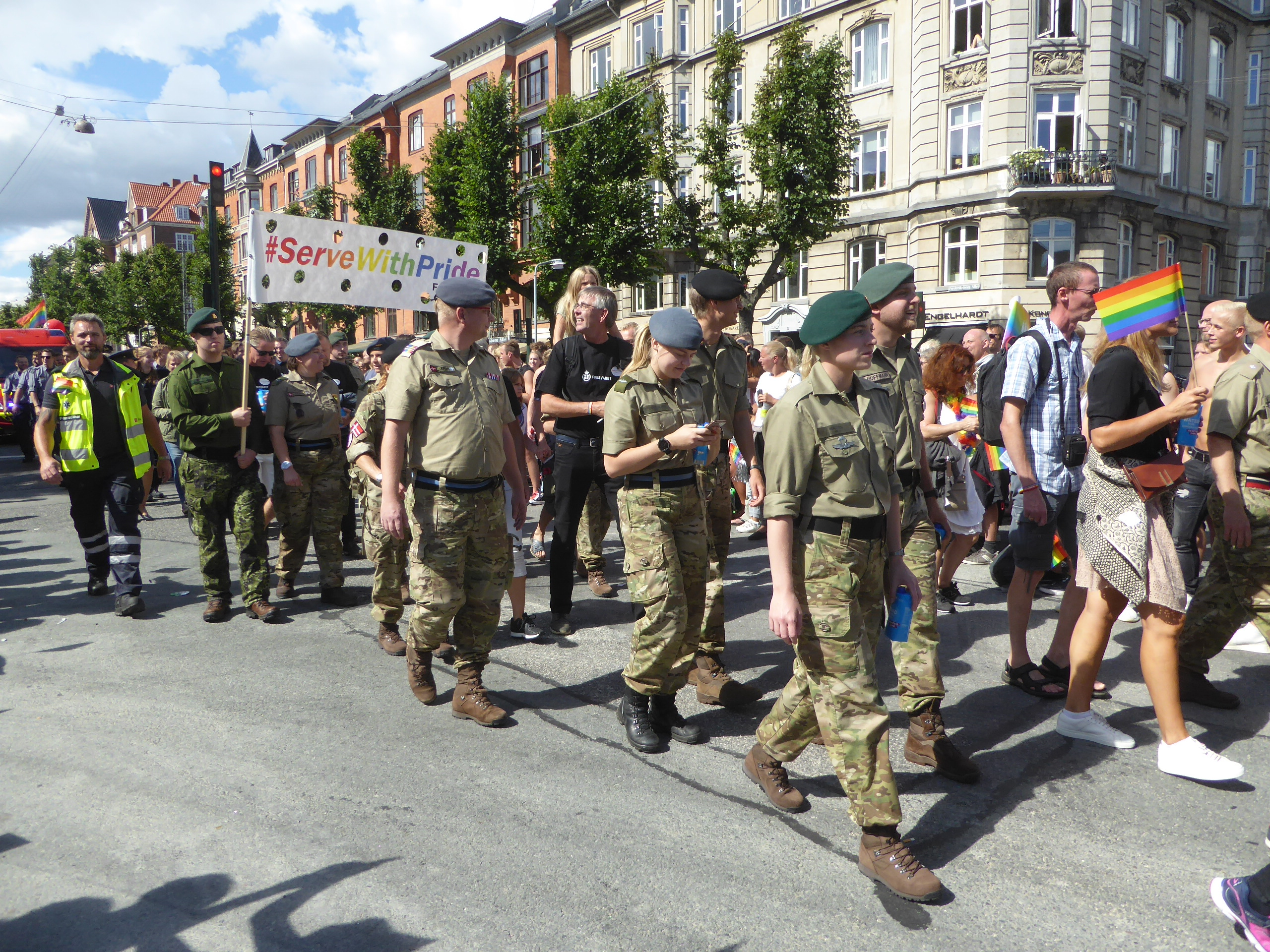 Serve with Pride at Copenhagen Pride Parade on Frederiksberg Allé in Copenhagen.